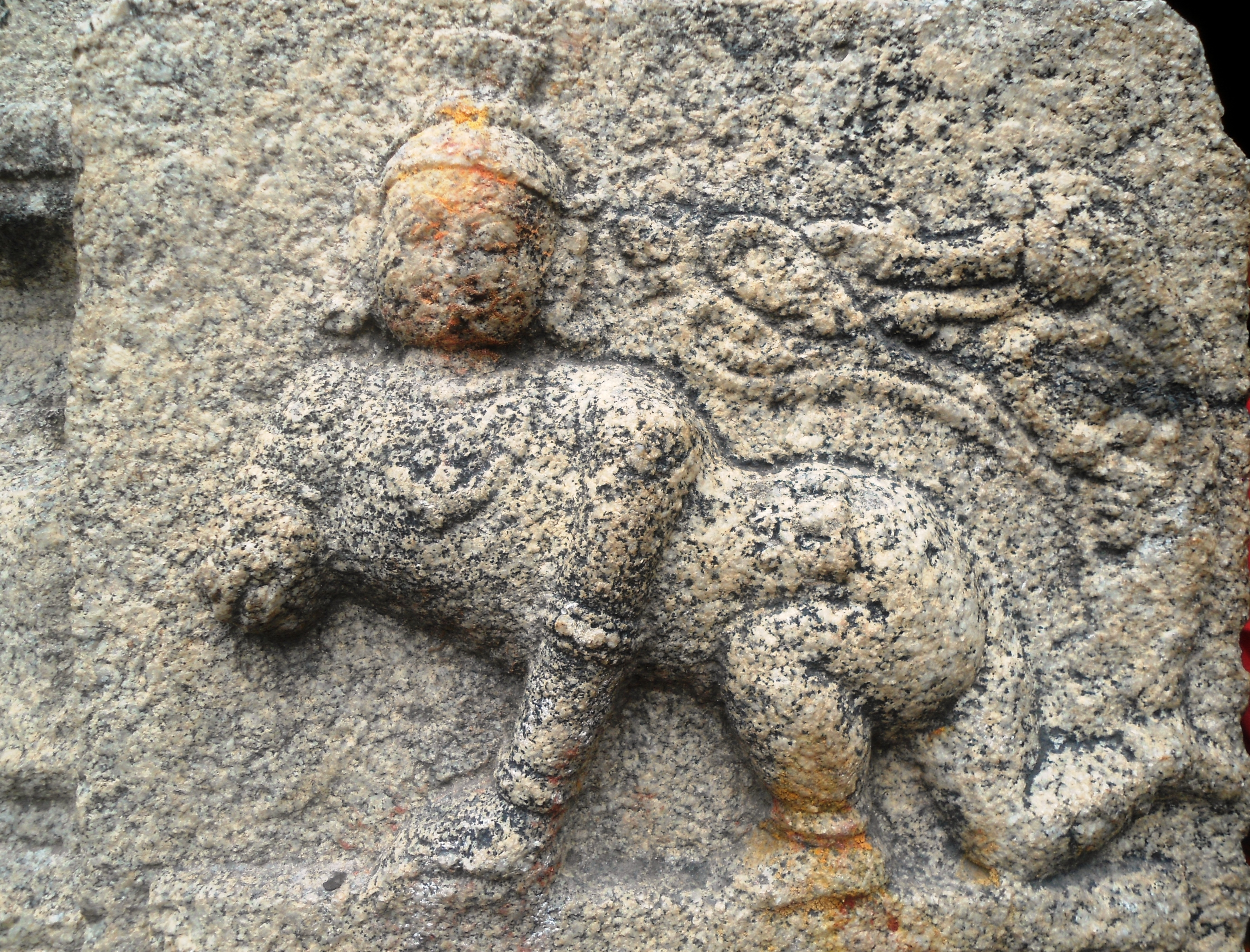 Stone carved Krishna Relief at Mokallamitta gaaligopuram,Tirumala